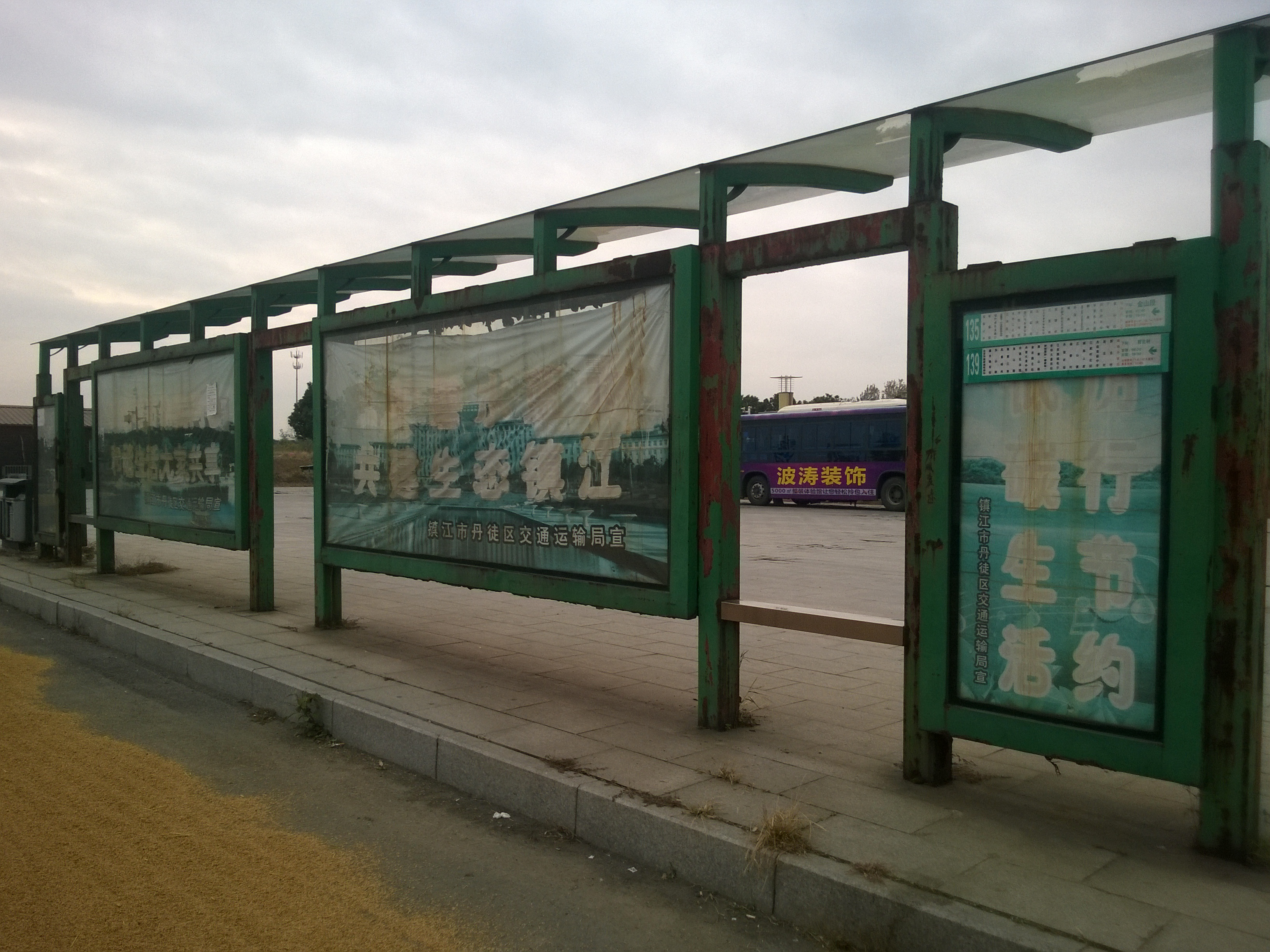 Dilapidated bus stop in Dantu Railway Station